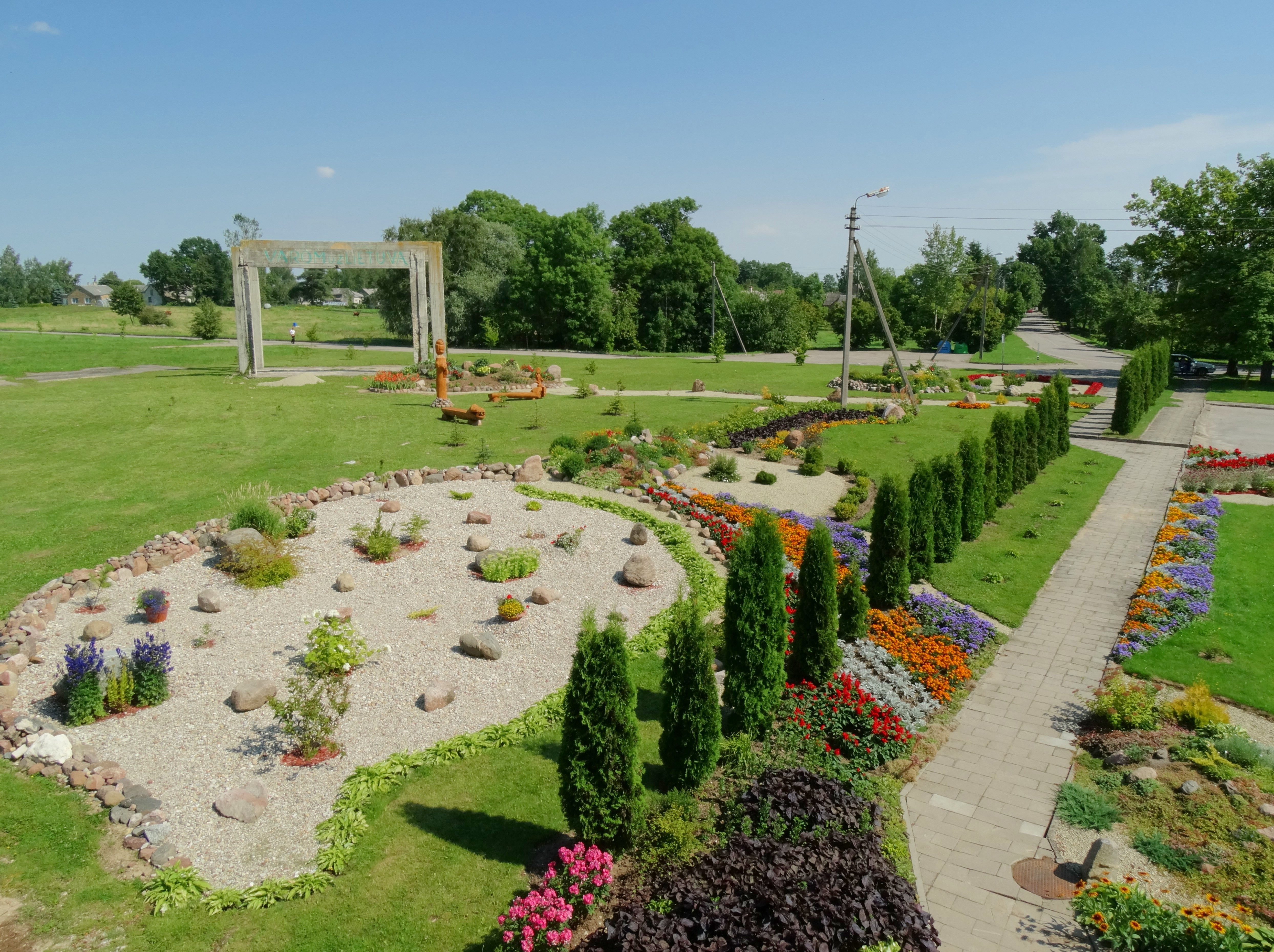 Flower garden, Rudiškiai, Joniškis district, Lithuania